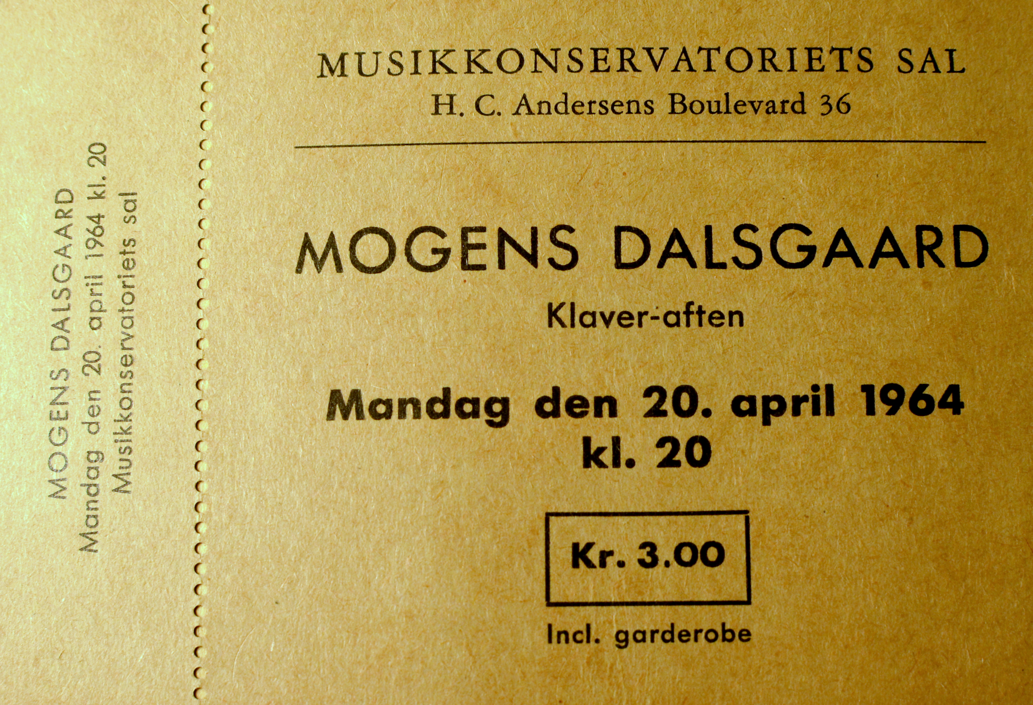 Billet til Mogens Dalsgaard's debutkoncert